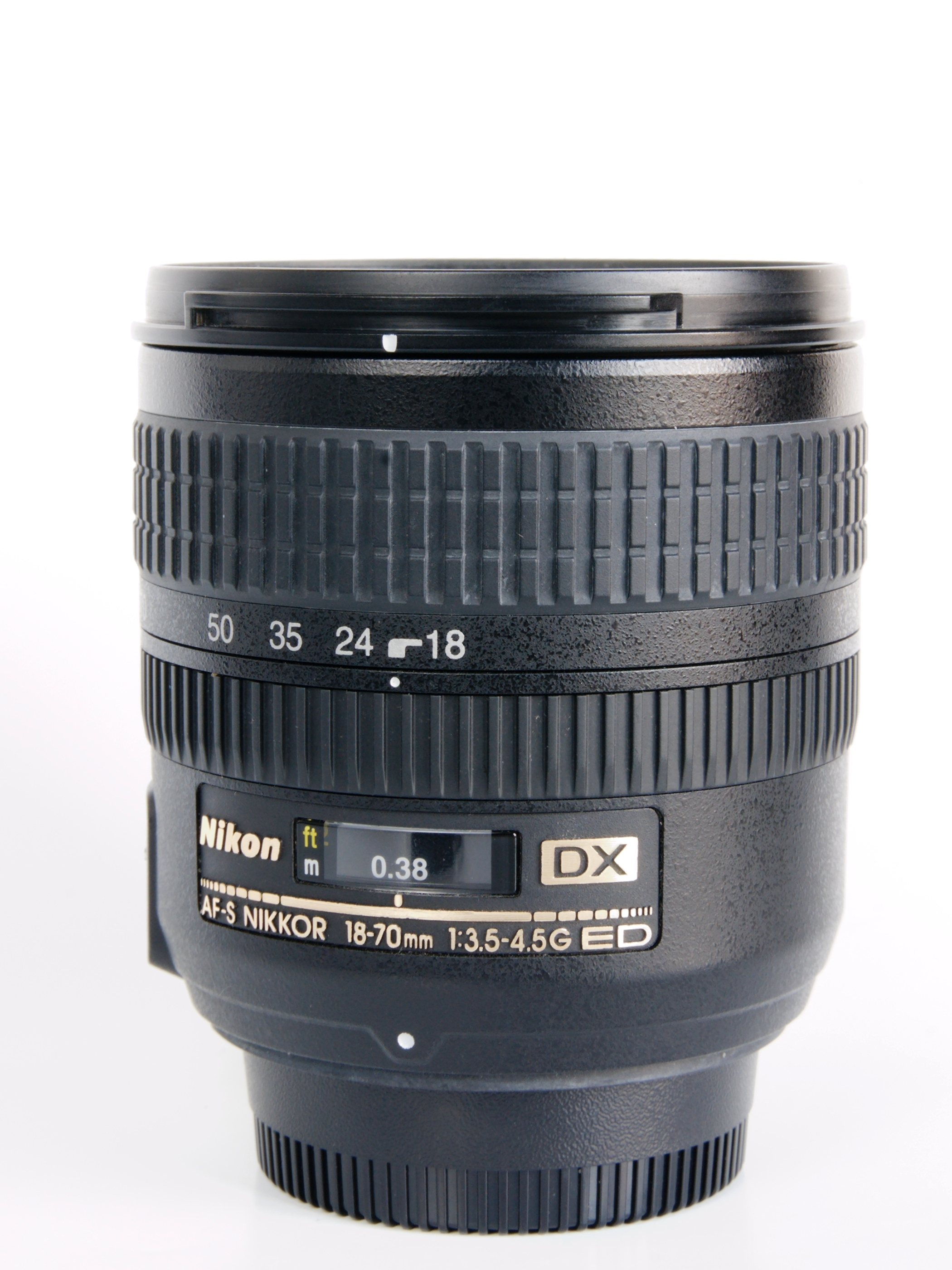 Zoom lens Nikkor AF-S DX 18-70 mm f3.5-4.5G ED-IF.